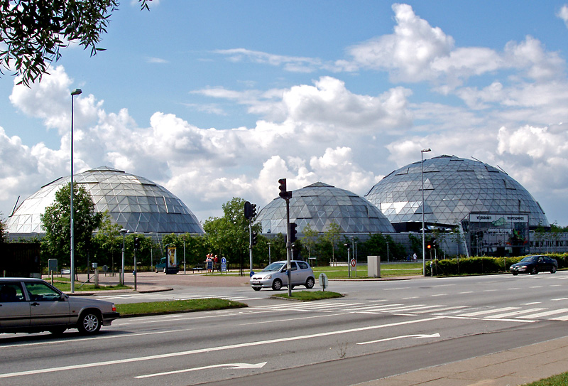 Randers Regnskov, a tropical Zoo near Randers, Denmark